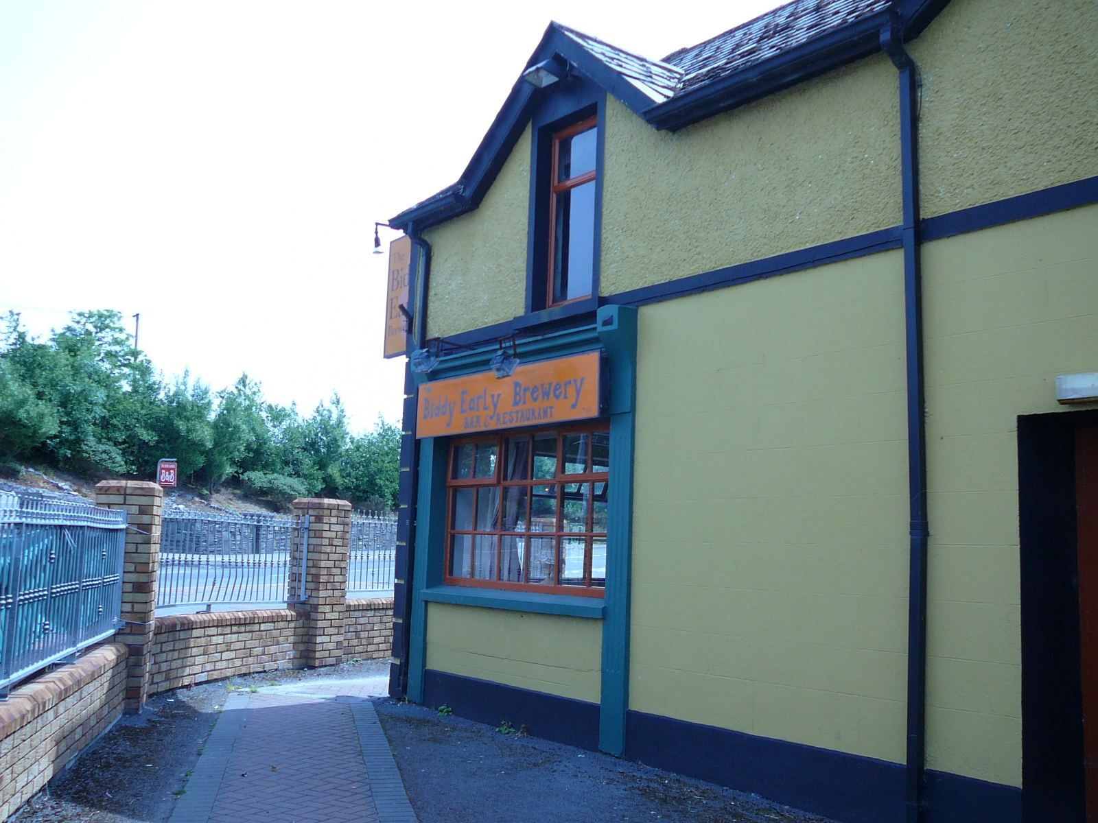 The Biddy Early Brewery